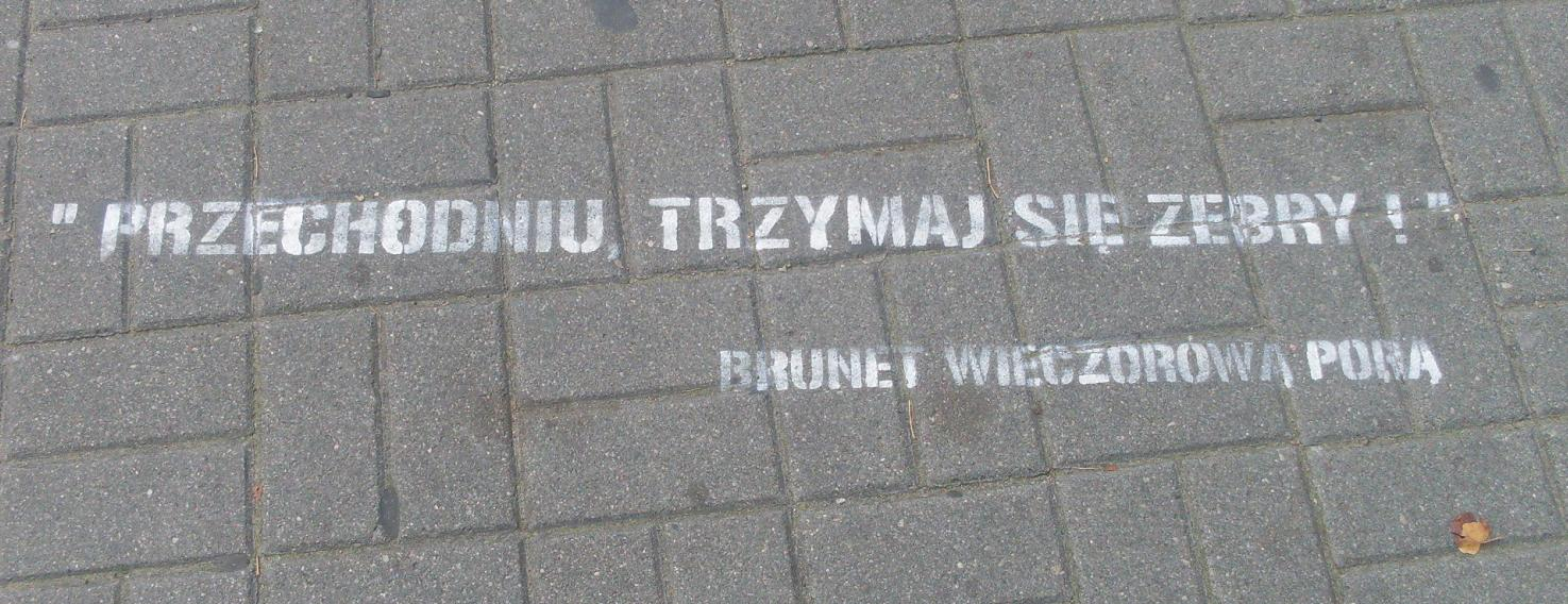 Quotation from polish film "Brunet At Evening". Painting at pavement 10 Lutego Street in Gdynia. Promote Polish Film Festival in Gdynia.